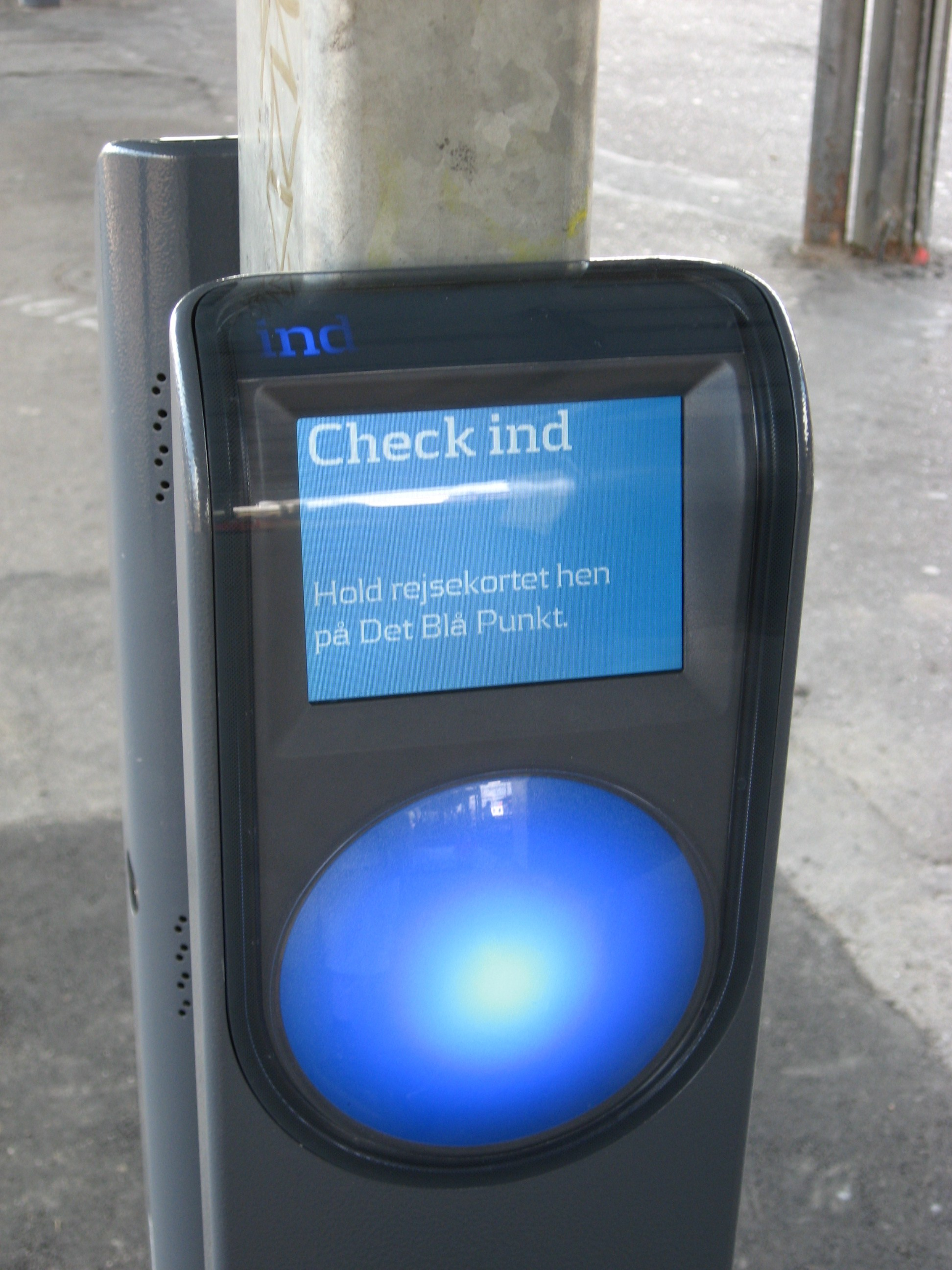 Rejsekort check-in validator in a Kobenhaven station